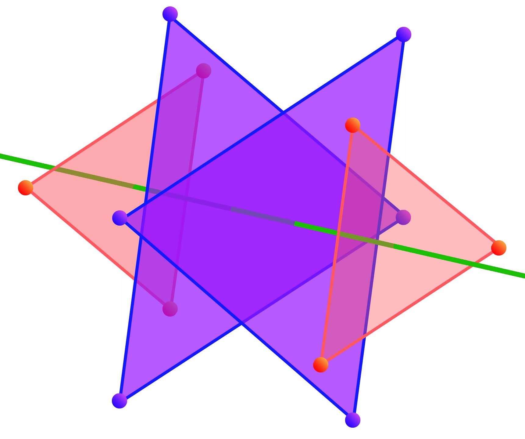 Rotations of order 3 in an icosahedron